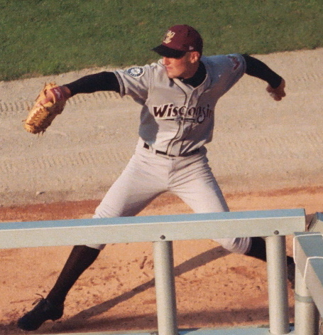 Ryan Feierabend playing for the Wisconsin Timber Rattlers in 2004.